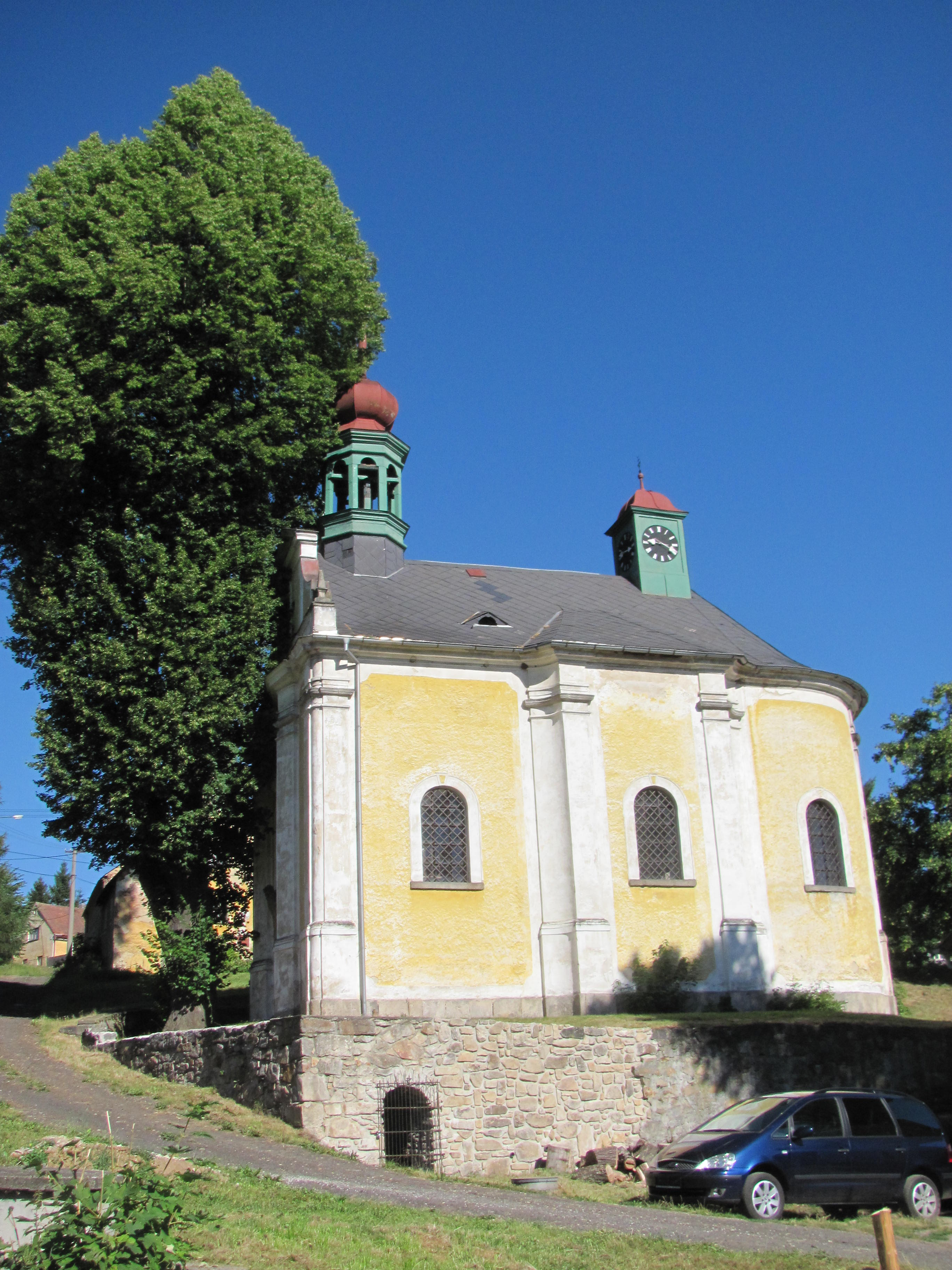 St. Vitus chapel in Dražov, Stanovice (district K. Vary, Czech Republic), cultural monument